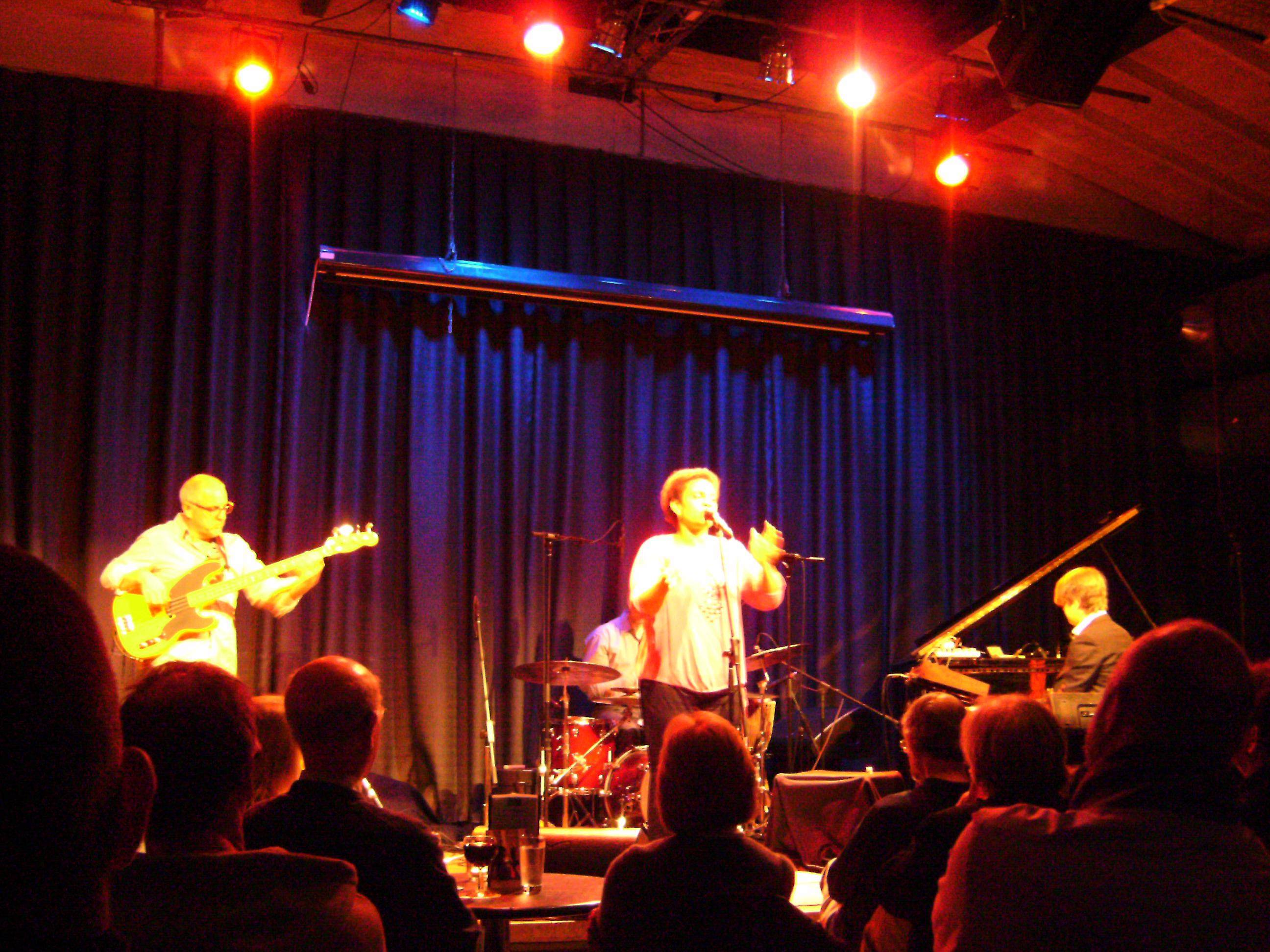 Cécile Verny Quartet at the „Jazz-Schmiede“ 2011 in Düsseldorf, Germany, Dez 02, 2011